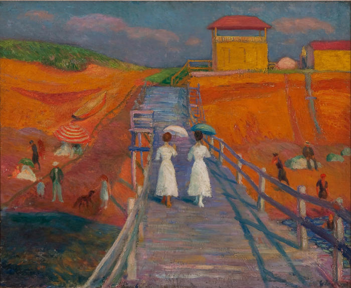 Cape Cod Pier by William Glackens, 1908. Oil on canvas, 26 x 32 in. (66 x 81.3 cm), Museum of Art, Fort Lauderdale, Nova Southeastern University